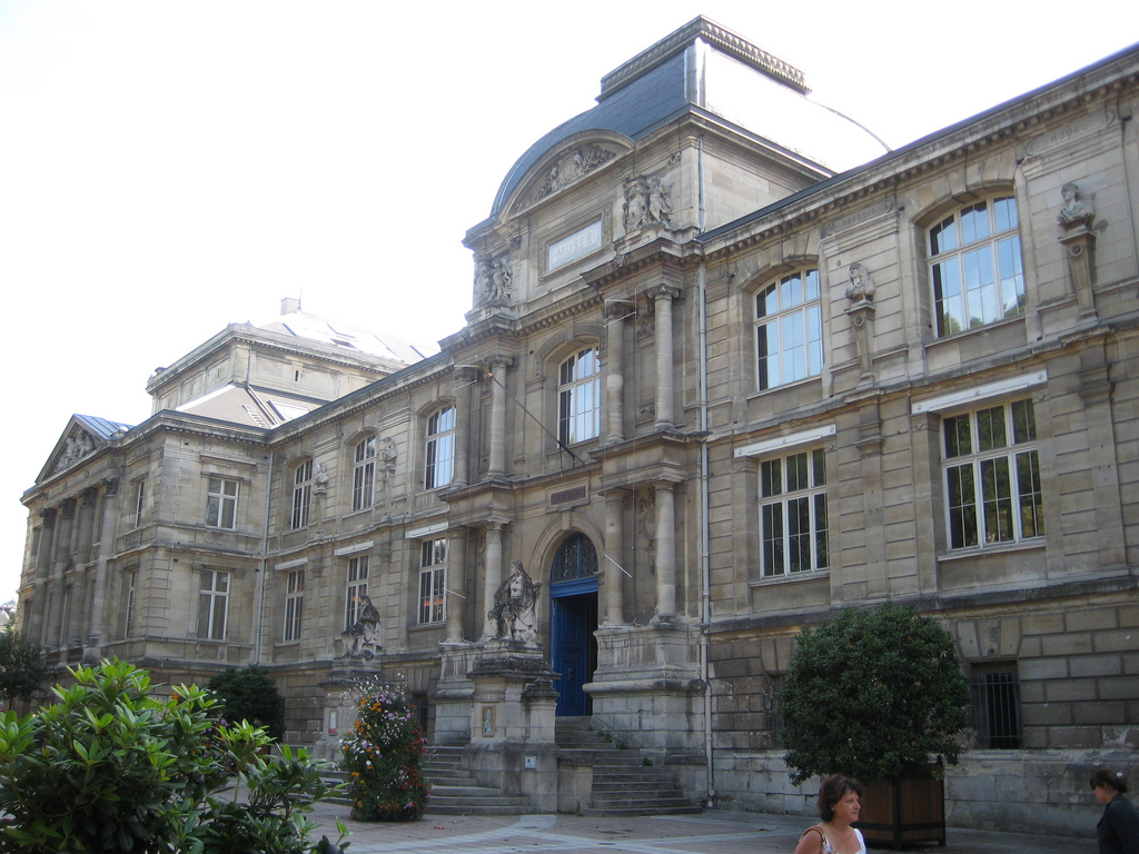 The musée des Beaux-Arts de Rouen is an art museum in the heart of the French city of Rouen. Its building was renovated, completed in 1994. 18th and 19th century art is particularly well represented.